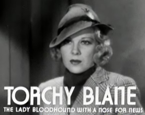 Screenshot of Glenda Farrell from the trailer for the film Smart Blonde .